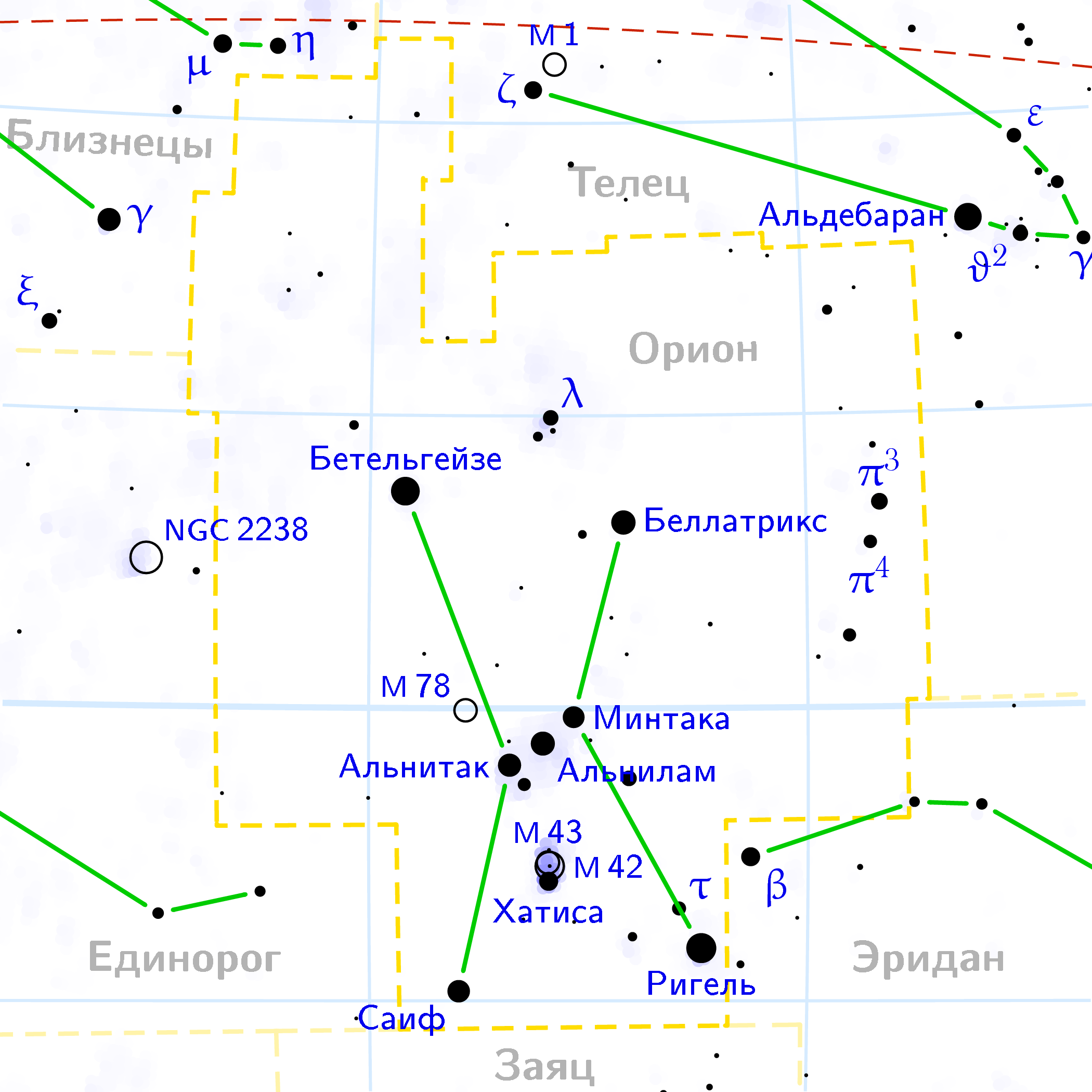 Orion constellation map on Russian